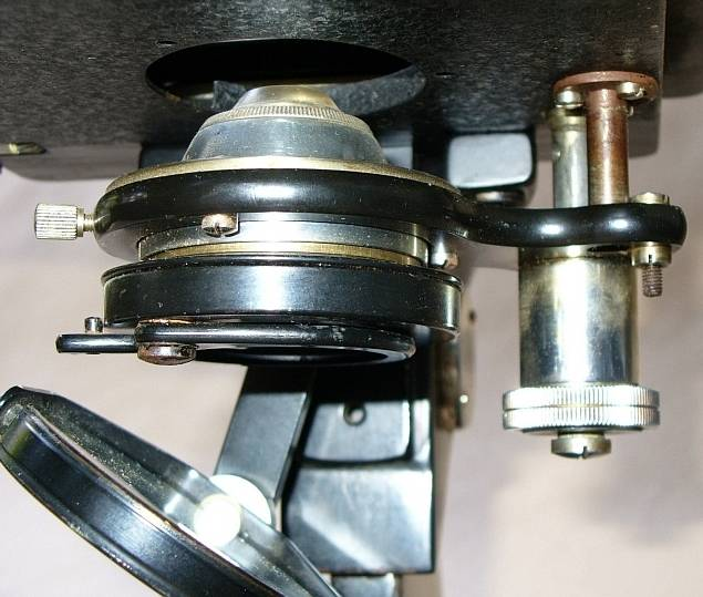 Microscope.